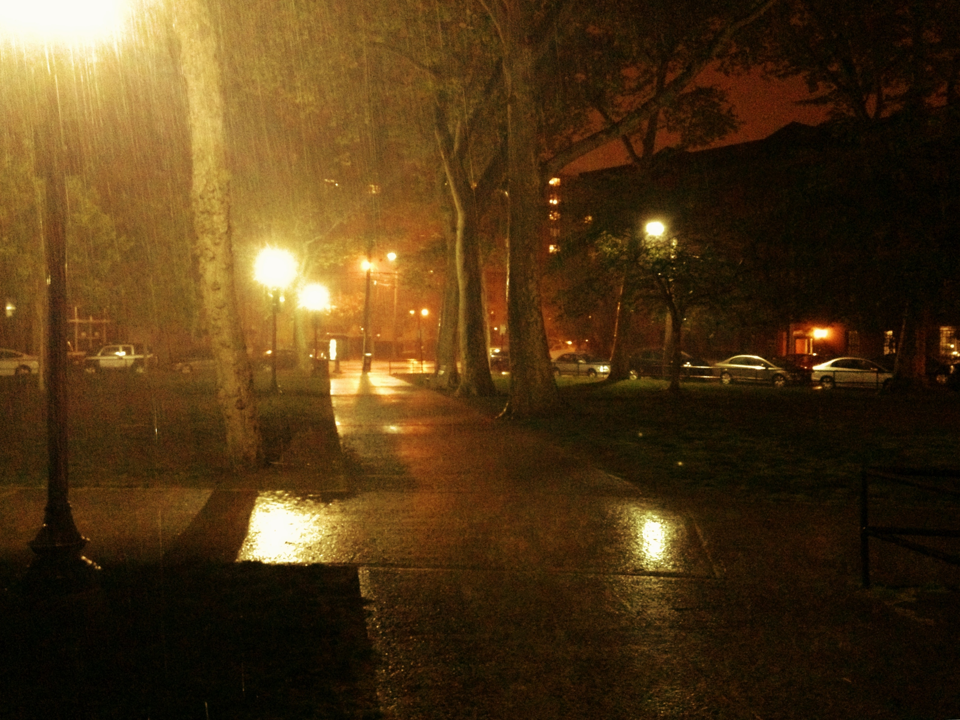 Caught in the downpour